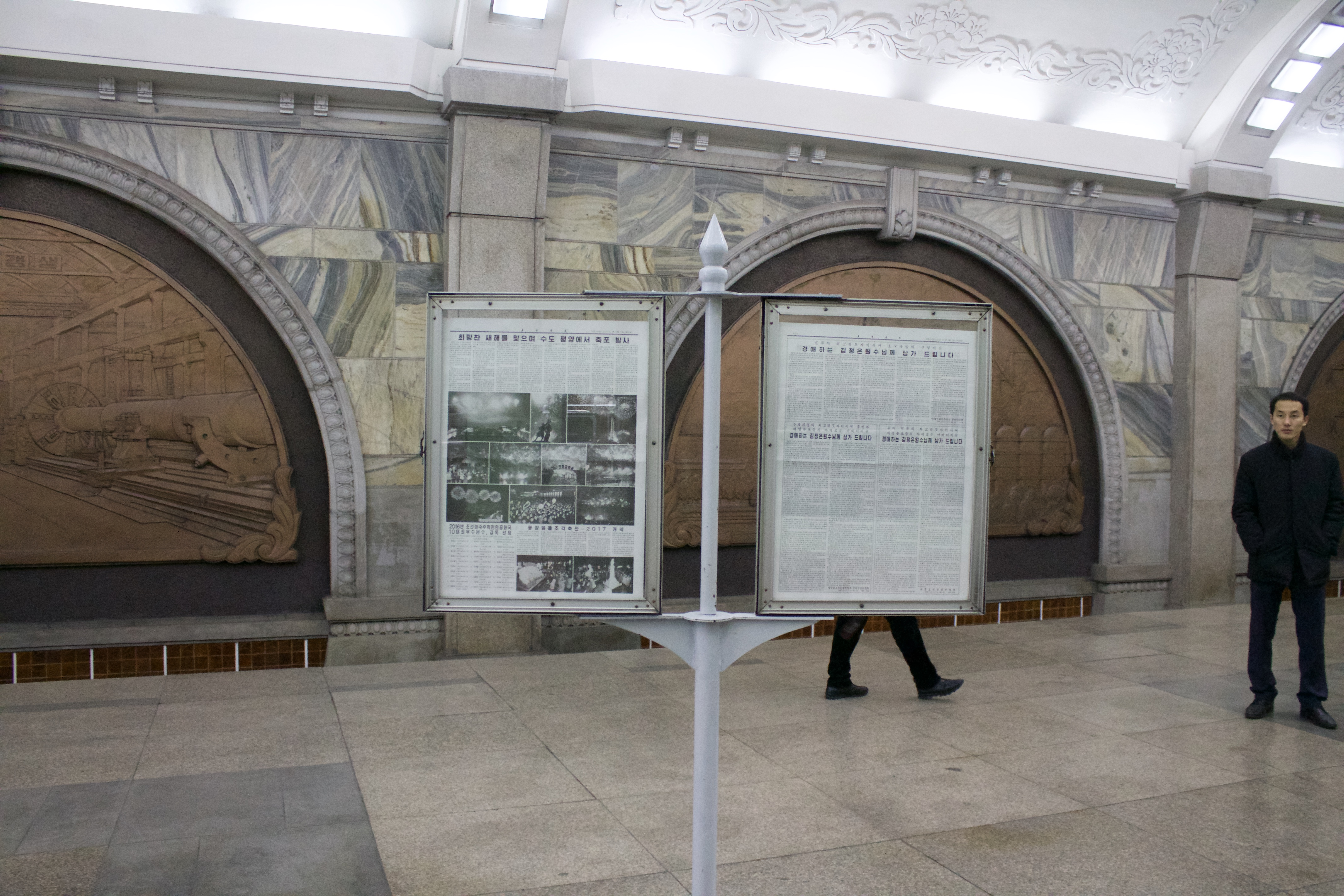 Subway Newspaper